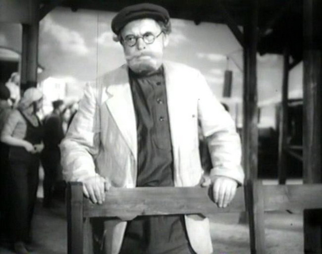 Vasily Vanin as Andrei Kurochkin in The Precious Seed (1948)